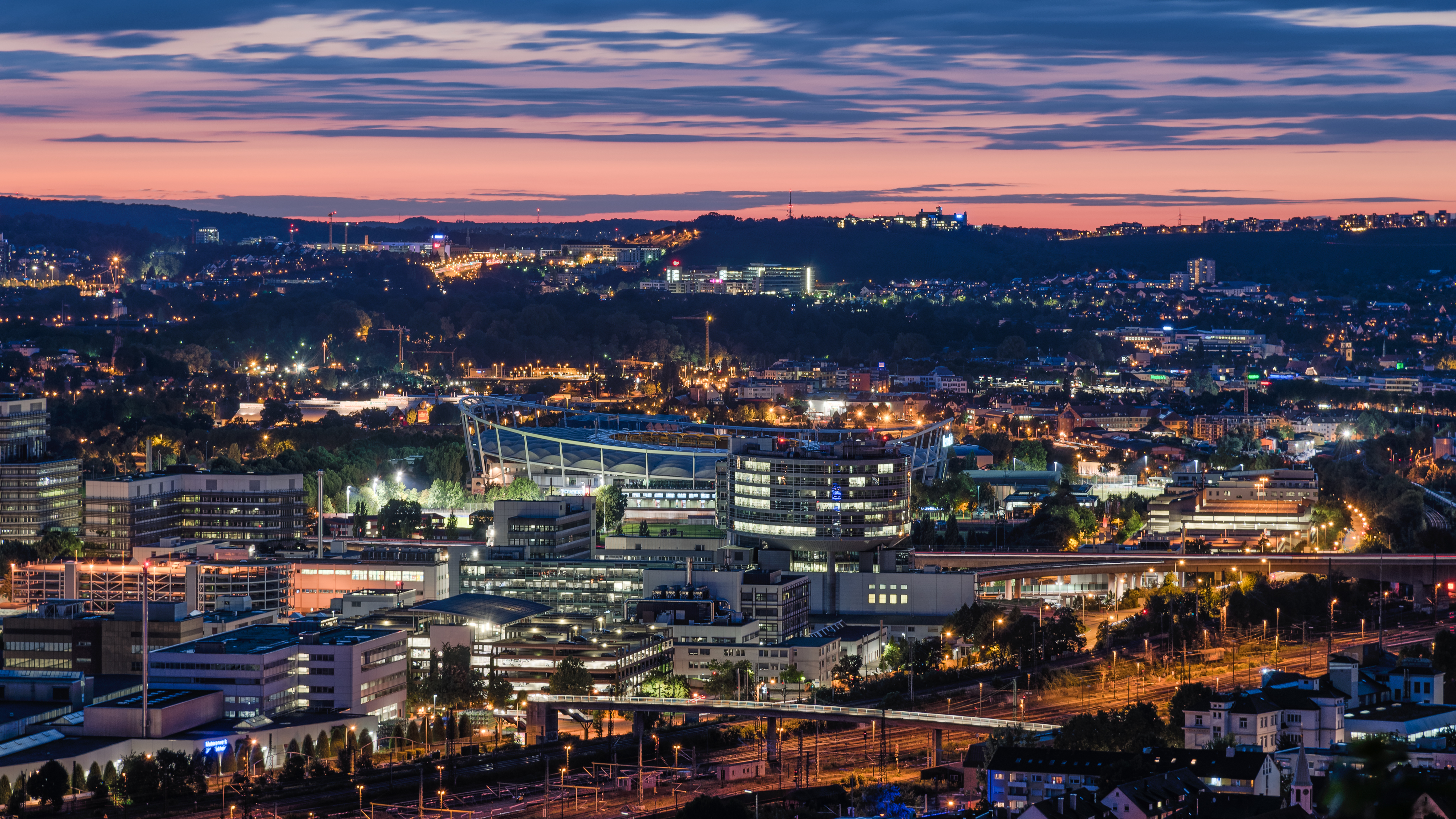 Mercedes-Benz Werk Untertürkheim (plant 1), Neckarpark, Mercedes-Benz Arena in Stuttgart, Germany.